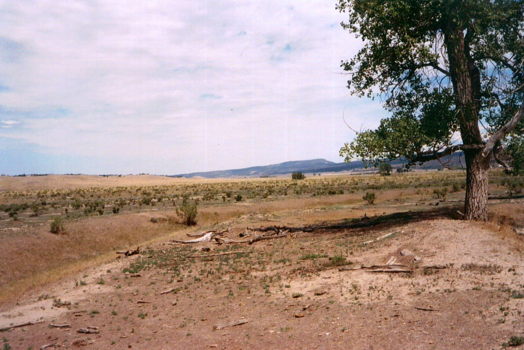 This photo shows the southern Black Hills near Dewey and Burdock. The mountains in the background are the Elk Mountains and Black Hills National Forest, separated from the Limestone Plateau by the "Custer Highlands" (the name given to this region by a land developer).